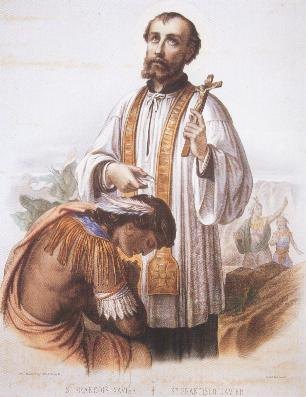 Conversion of Paravas by Francis Xavier in 1542 19th-century colored lithograph, copyright expired This work is in the public domain in its country of origin and other countries and areas where the copyright term is the author's life plus 70 years or less. You must also include a United States public domain tag to indicate why this work is in the public domain in the United States. Note that a few countries have copyright terms longer than 70 years: Mexico has 100 years, Jamaica has 95 years, Colombia has 80 years, and Guatemala and Samoa have 75 years. This image may not be in the public domain in these countries, which moreover do not implement the rule of the shorter term. Côte d'Ivoire has a general copyright term of 99 years and Honduras has 75 years, but they do implement the rule of the shorter term. Copyright may extend on works created by French who died for France in World War II (more information), Russians who served in the Eastern Front of World War II (known as the Great Patriotic War in Russia) and posthumously rehabilitated victims of Soviet repressions (more information). This file has been identified as being free of known restrictions under copyright law, including all related and neighboring rights. Removed from the following pages: Christianization Paravas --OrphanBot 06:13, 10 February 2006 (UTC) Added source, returned image to the pages. --Wetman 17:22, 10 February 2006 (UTC) 20:29, 26 May 2005 Rxasgomez 306x397 (23441 bytes) (Conversion of Paravas by Francis Xavier in 1542 )